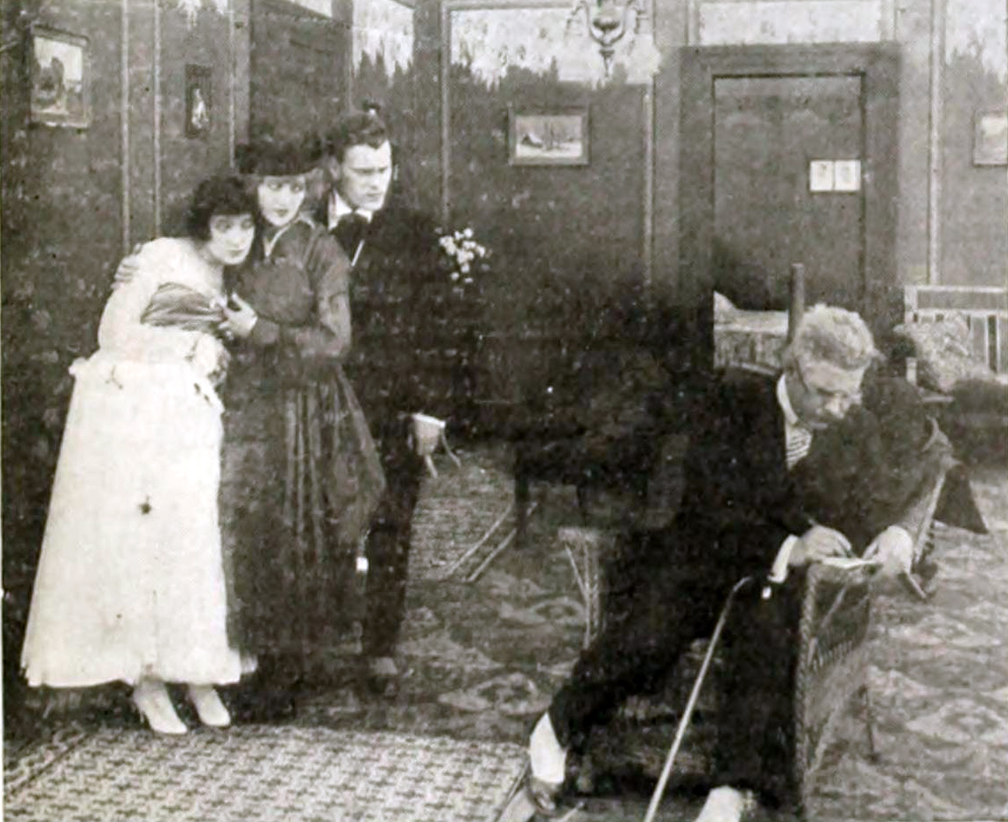 Illustration of a review in The Moving Picture World for Unmasking a Rascal, episode 10 of The Social Pirates (1916).